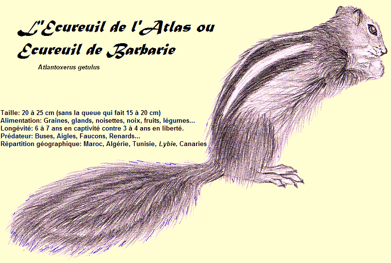 Barbary ground squirrel